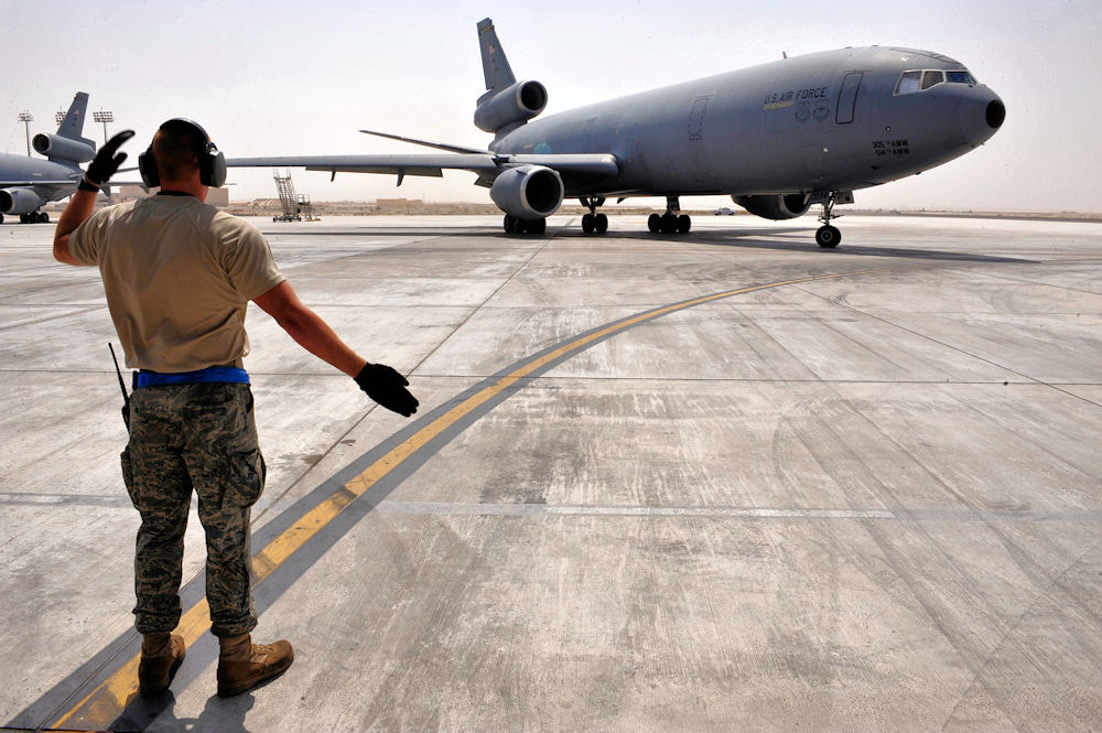 Senior Airman Shawn Adams, 380th Expeditionary Maintenance Squadron, marshals out a KC-10 Extender Aug. 29, 2009. Airman Adams is deployed from Travis Air Force Base, Calif., and grew up in Wichita Falls, Texas. (U.S. Air Force photo/Tech. Sgt. Charles Larkin Sr)